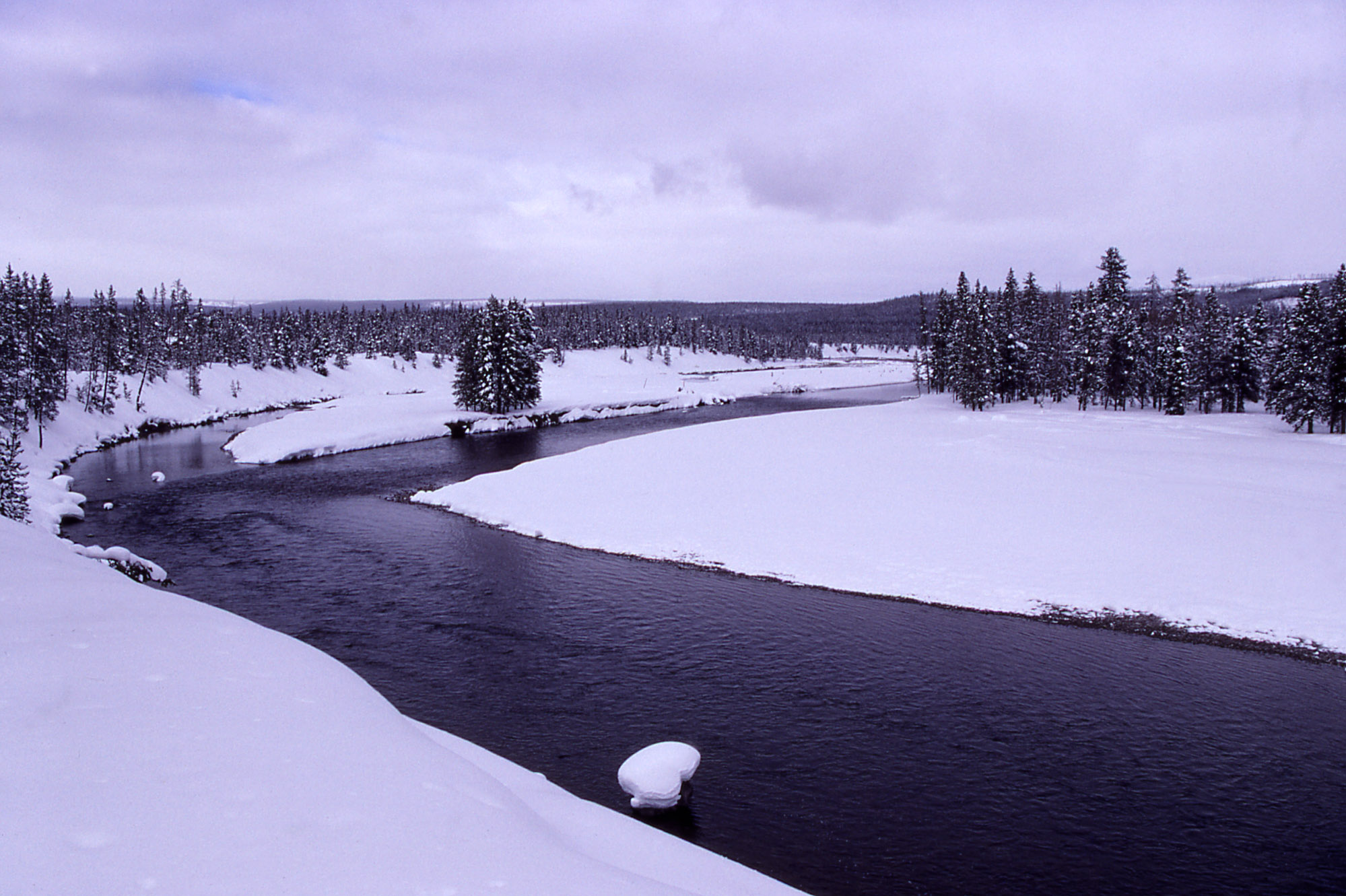 Snake River in Yellowstone National Park (2000)